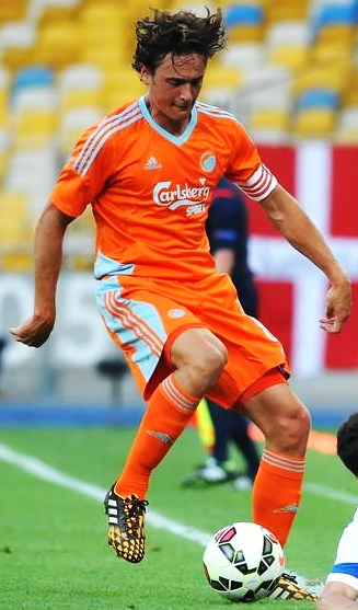 Thomas Delaney 14